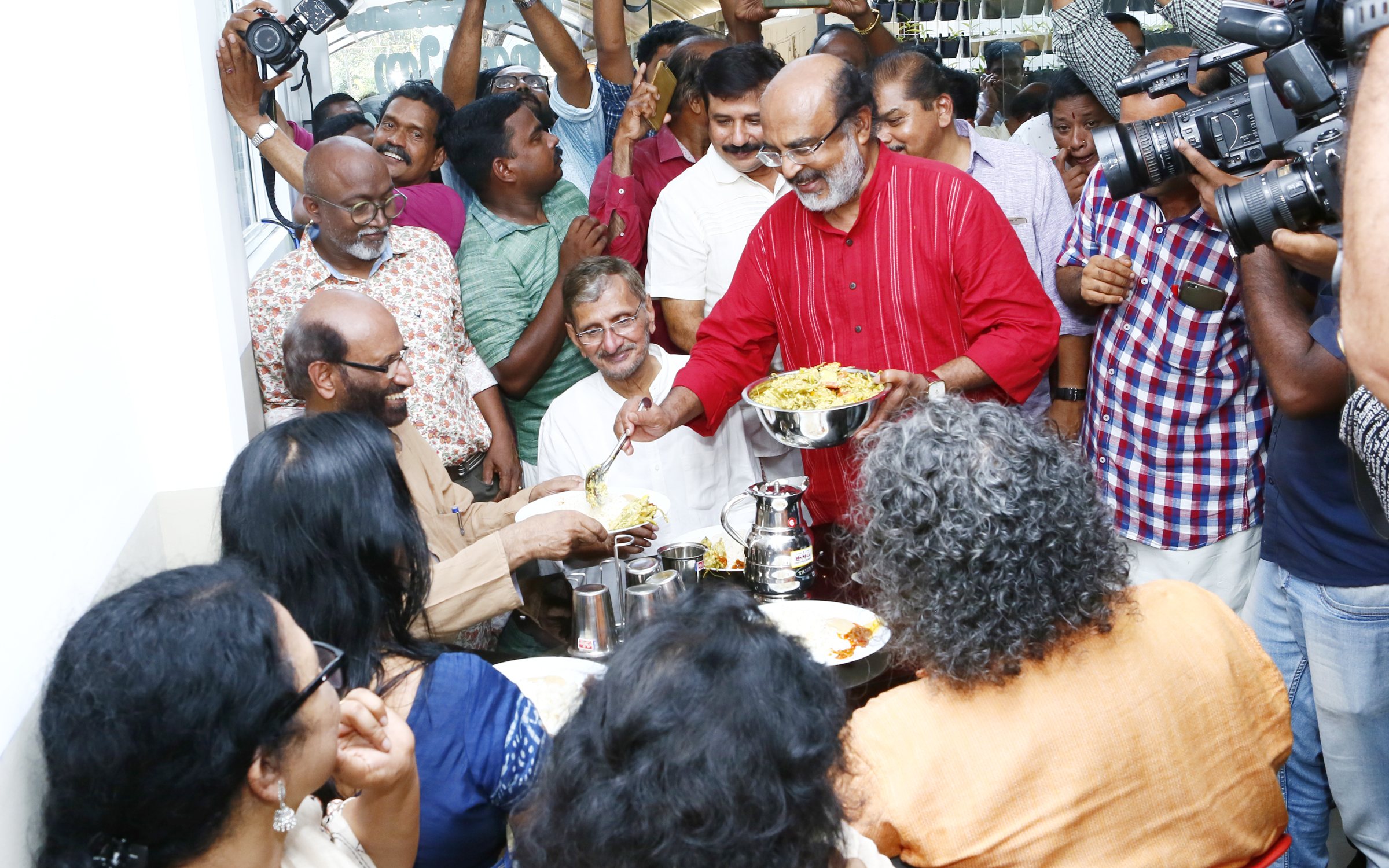 Kerala Finance Minister Dr. T M Thomas Isaac inaugurating People's food court at Alappuzha by serving food to former Vice Chancelor of Kerala University Dr. B. Eqbal and eminent Malayalam writer N. S. Madhasvan